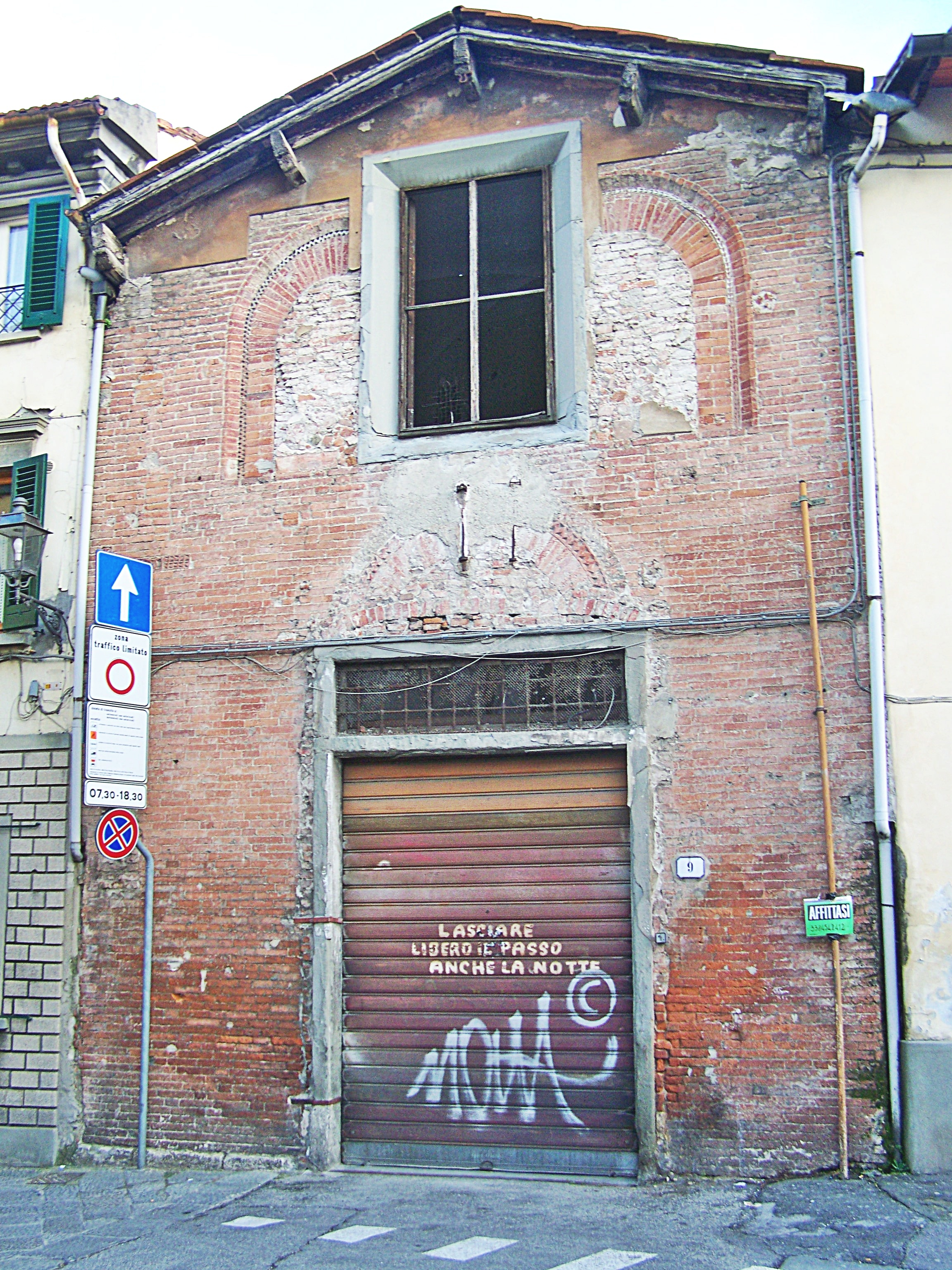 facade